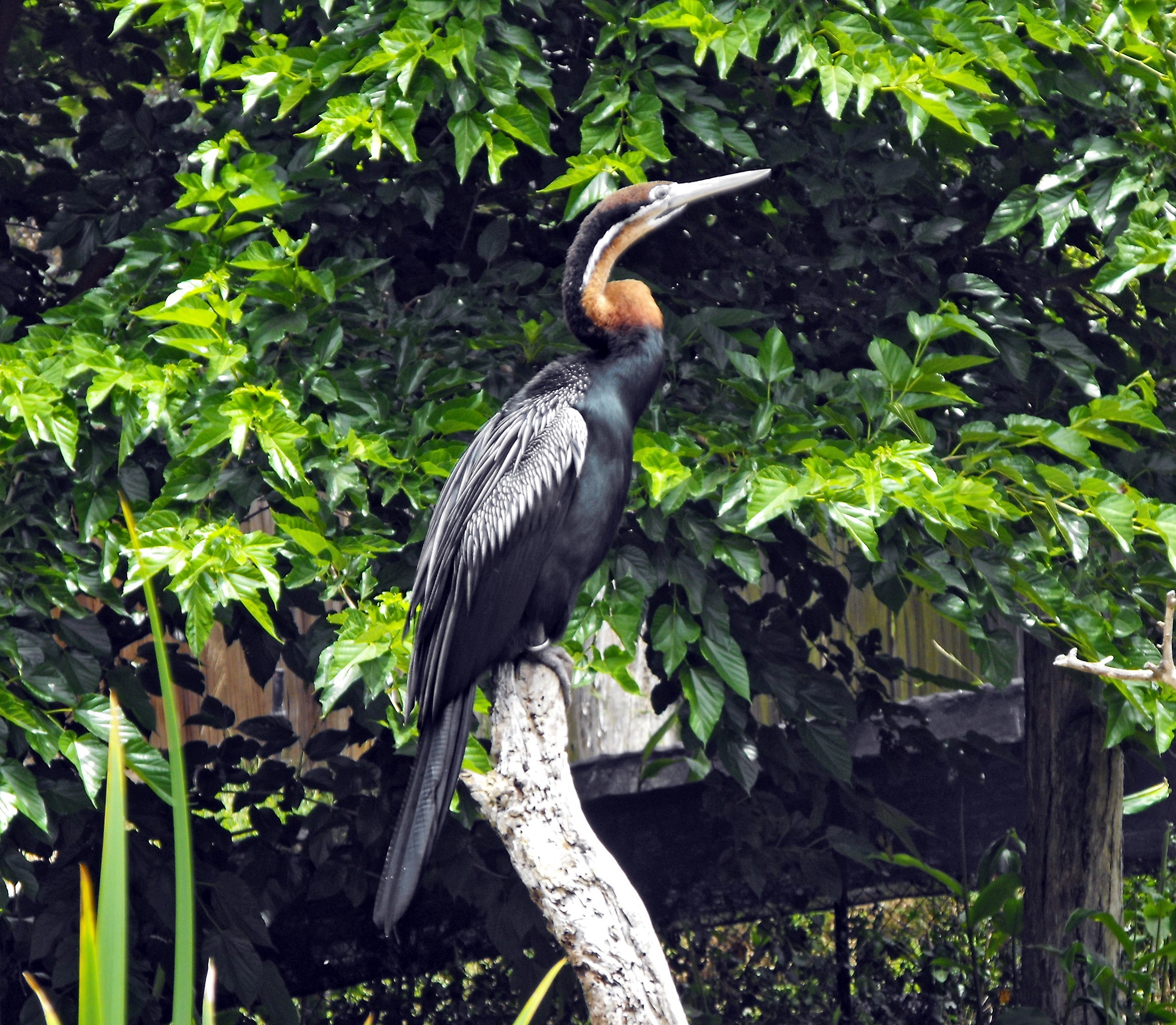 Anhinga rufa, the African Darter, at the San Diego Zoo, California, USA.